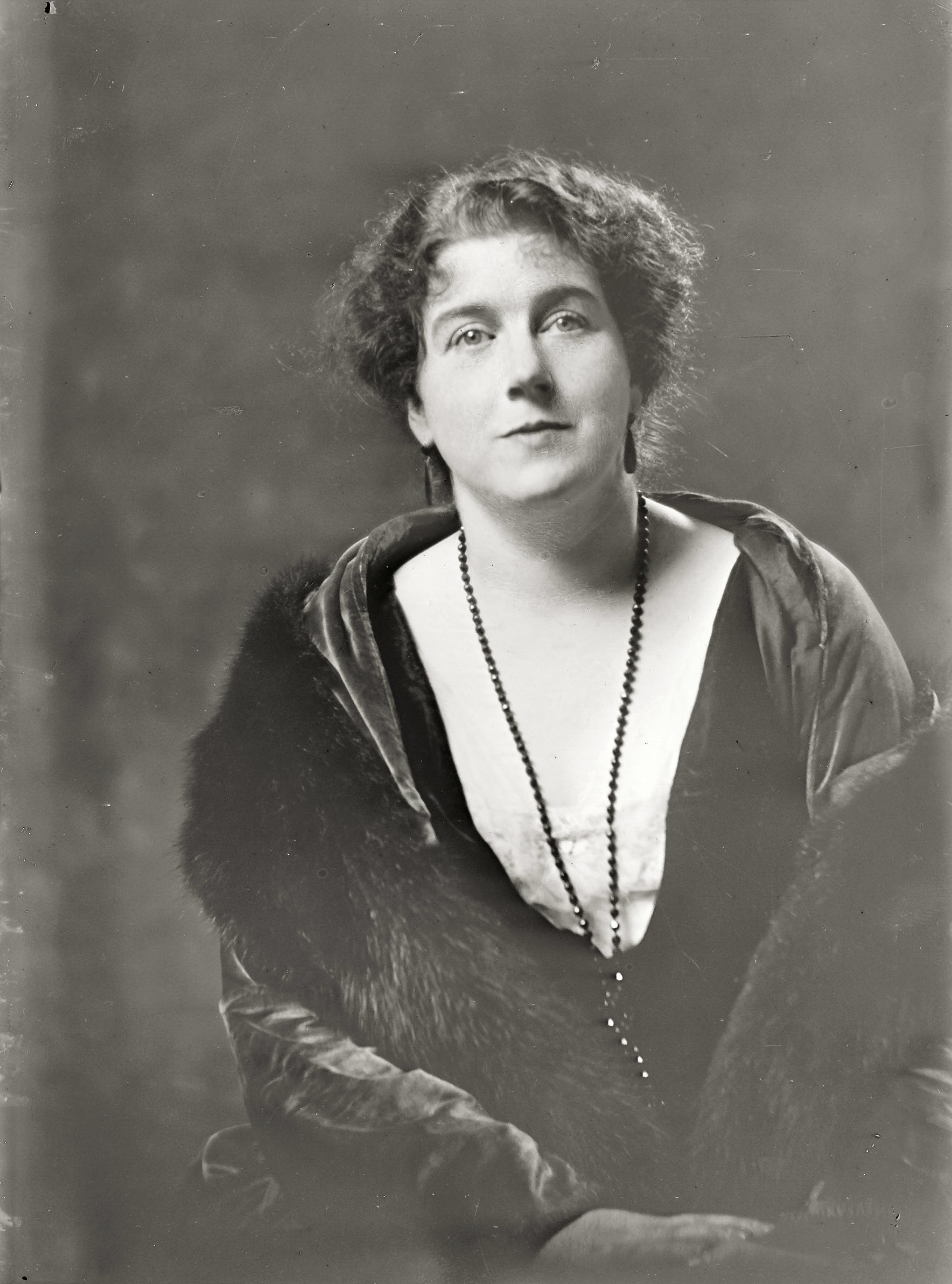 Portrait of Florence Tyzack Parbury, aged 38, by Arnold Genthe